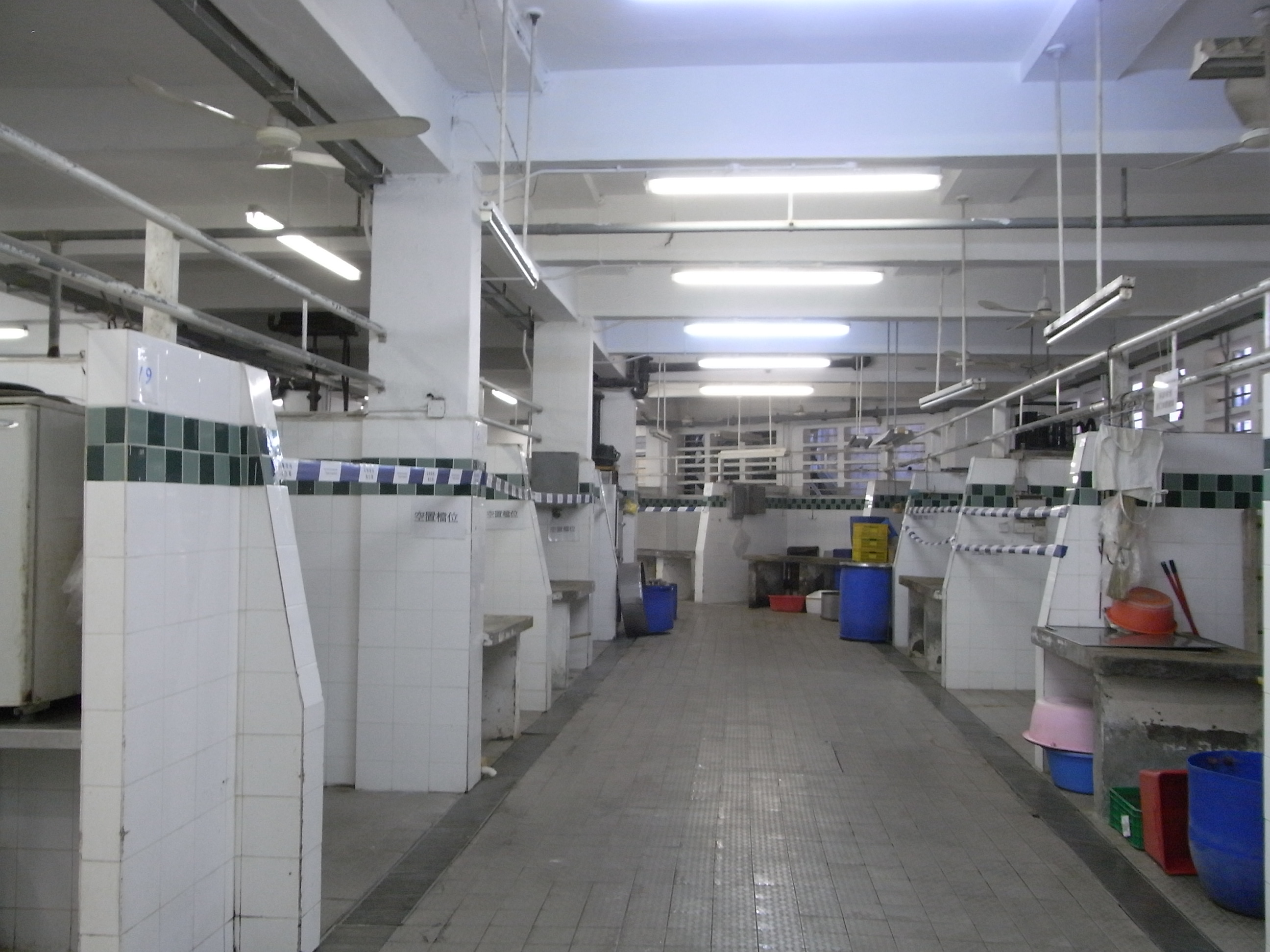 上環 必列者士街市場